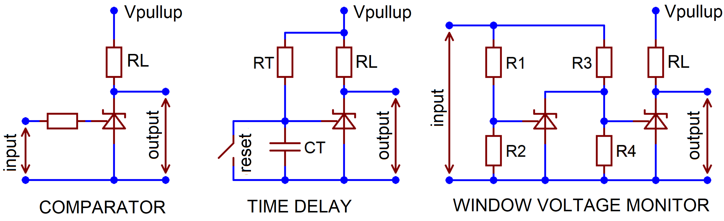 Comparator, time delay, voltage monitor based on the TL431. Sources: TI datasheet TL43xx Precision Programmable Reference and application note Using the TL431 as a Voltage Comparator